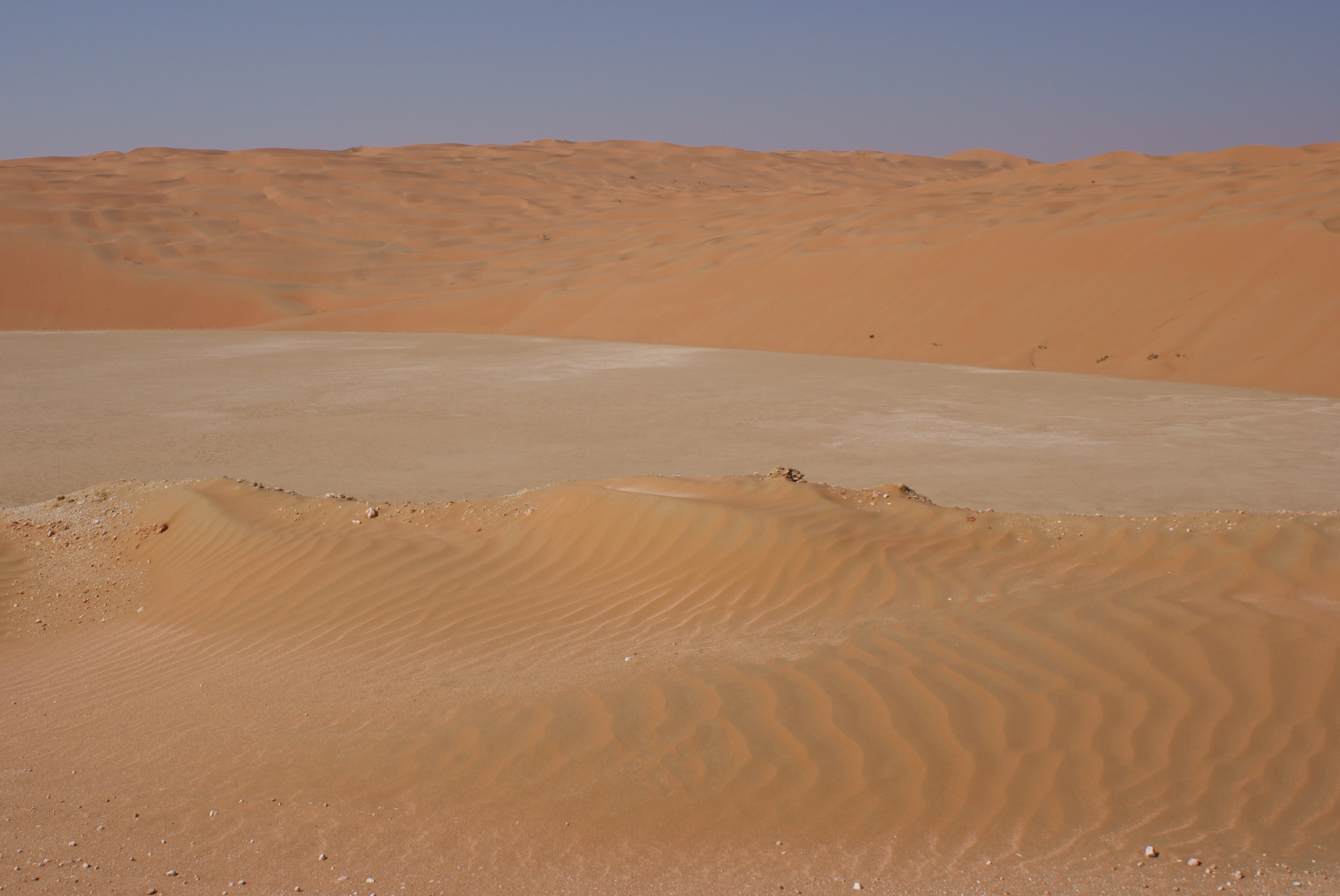 Rub' al Khali or Empty Quarter is the largest sand desert on earth. The picture shows the typical pale gravel plains surrounded by huge sand dunes.